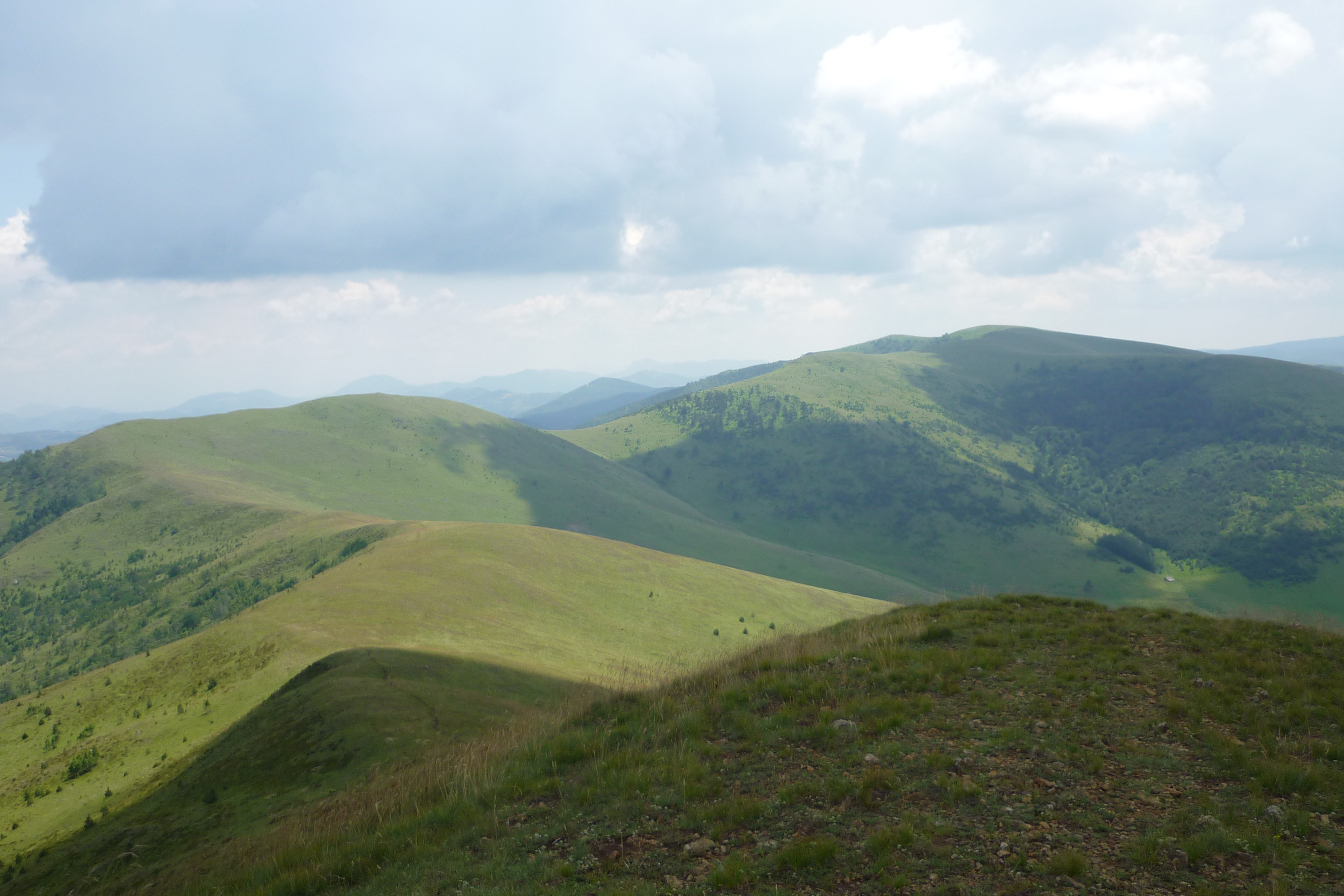 Mountains near the cigota mountain (Zlatibor)